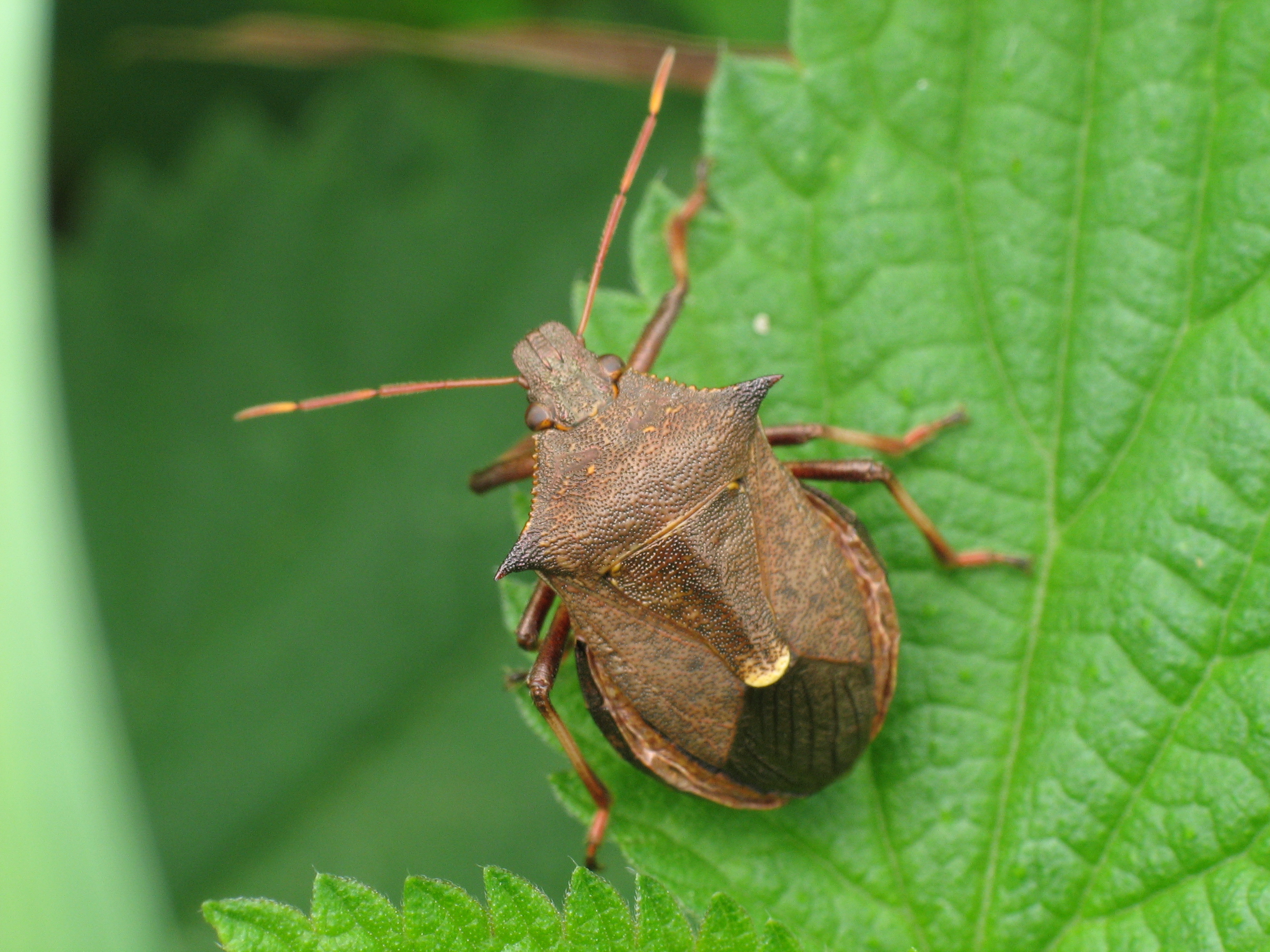 Zbrojec dwuzębny (Picromerus bidens), Location Zgierz (Słupsk County, Pomeranian Voivodeship)